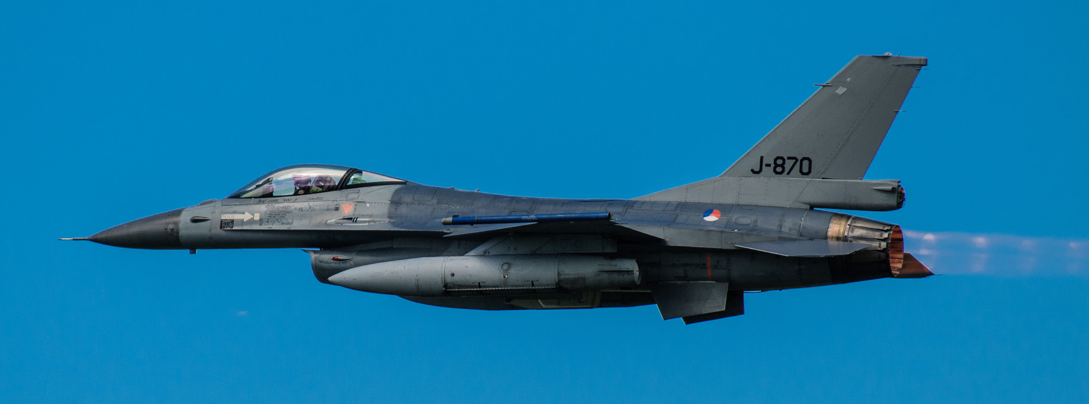 F-16 Vipers NL Air Force Days